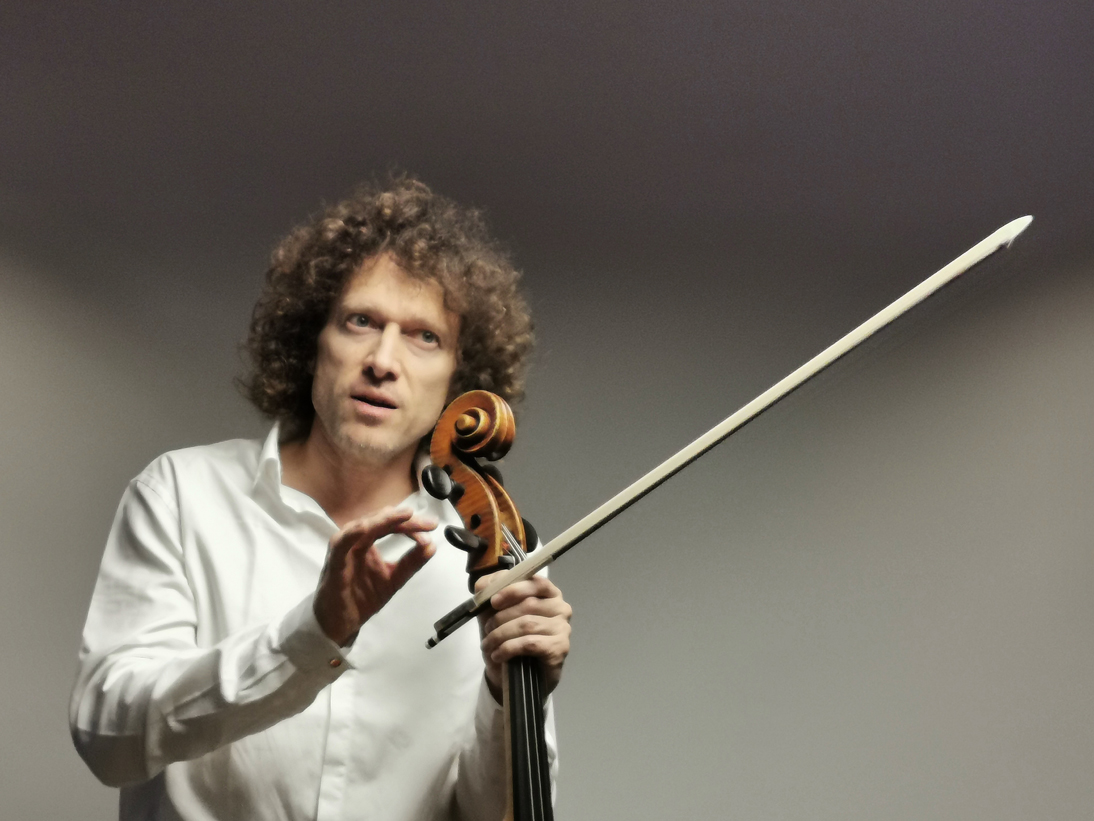 François Salque, contemporary French classical cellist